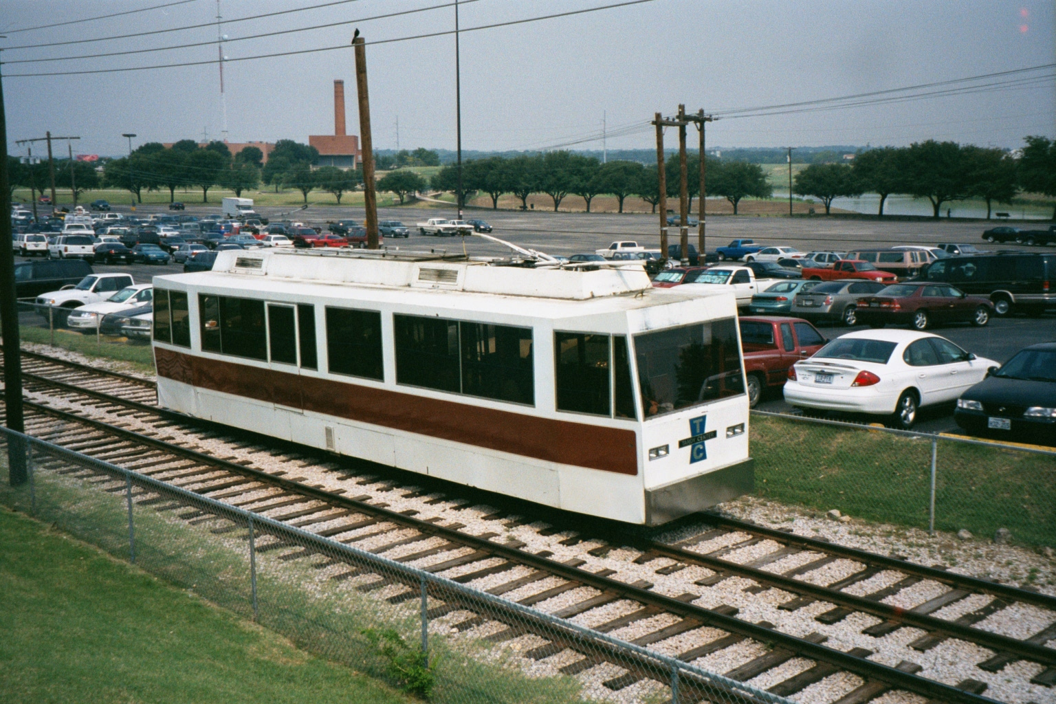 Tandy Center Subway rolling stock